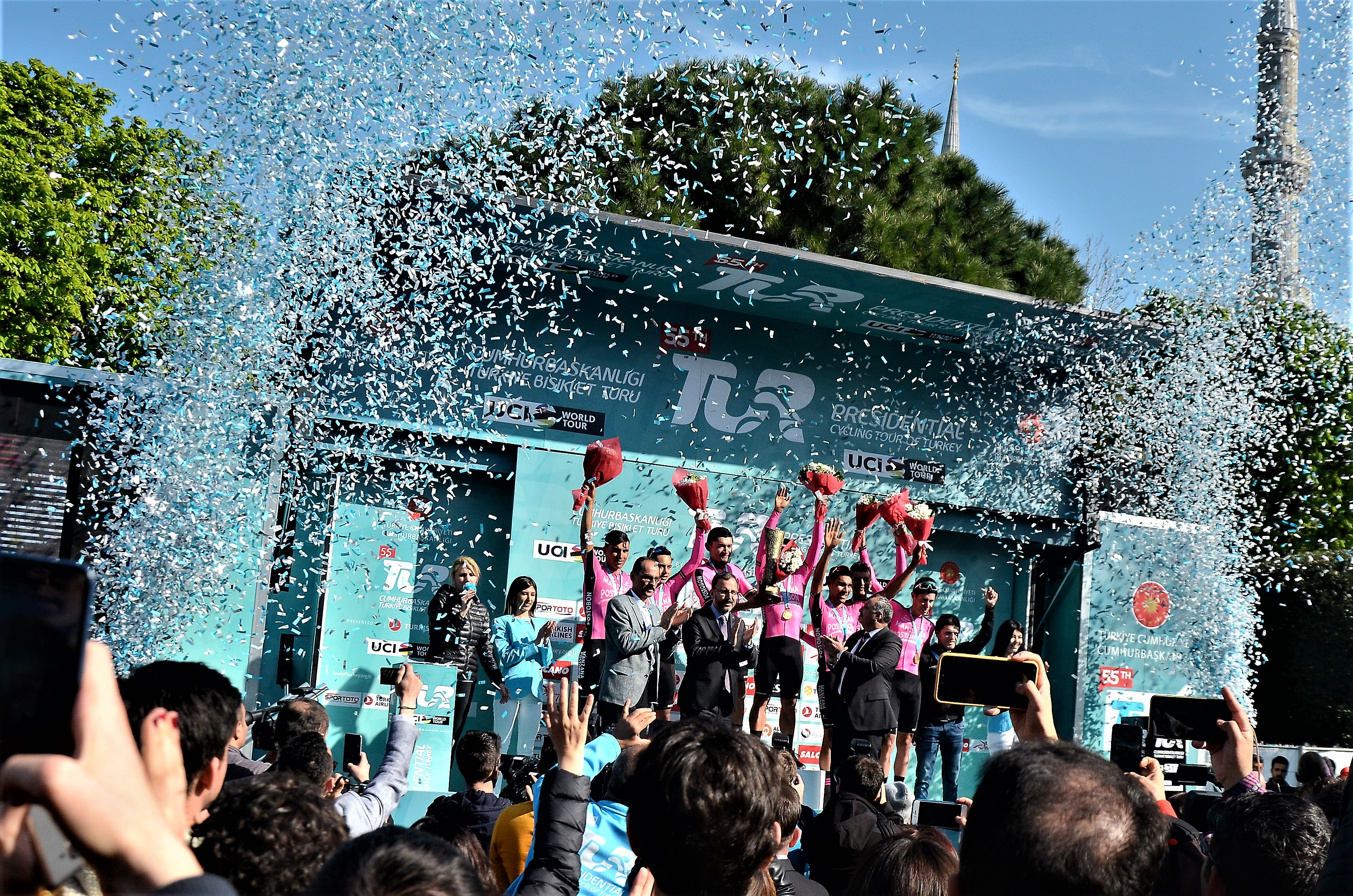 Team Manzana Postobon, winner of the 55th Presidential Cycling Tour of Turkey 2019 at at the award ceremony.